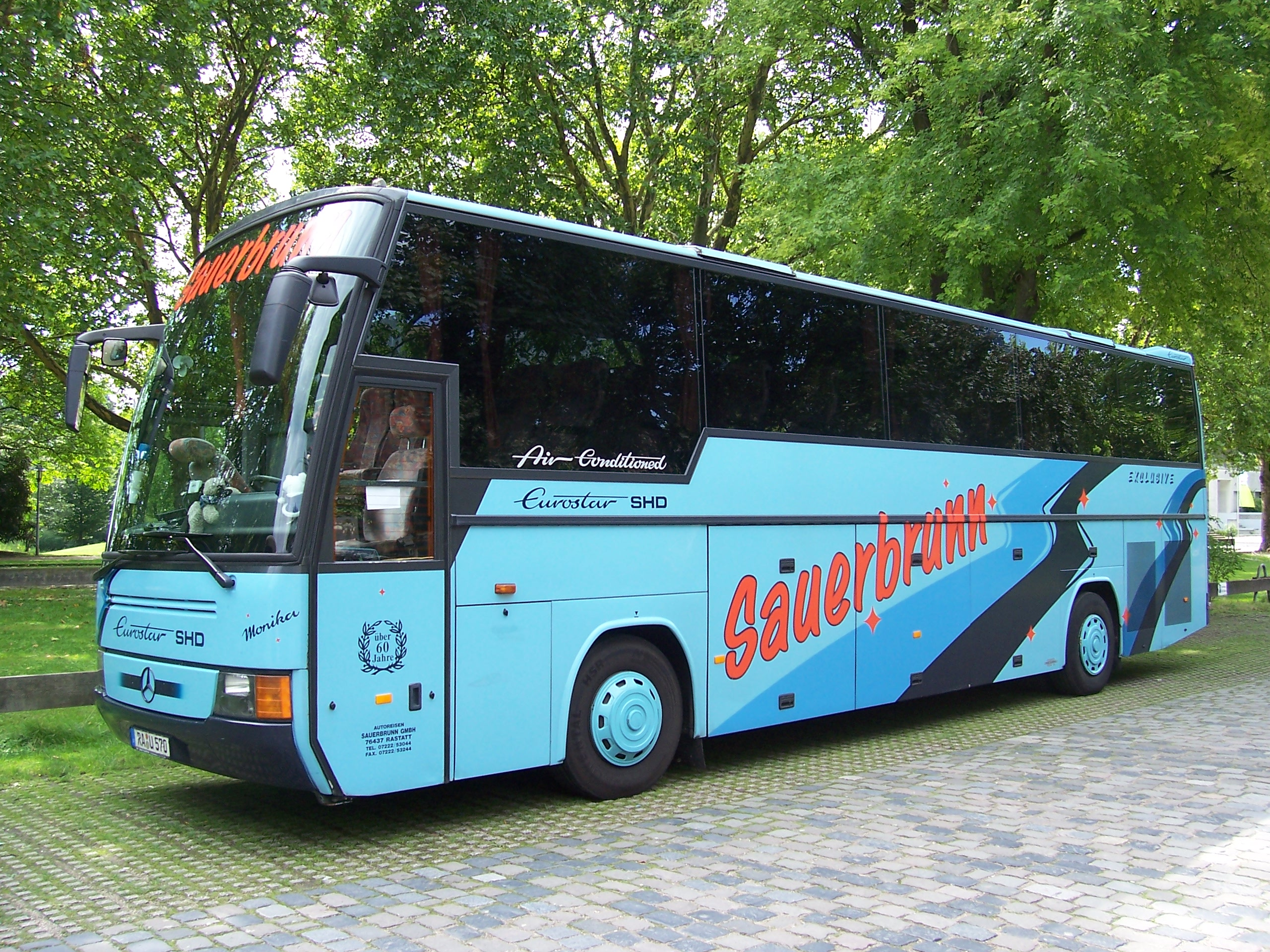 Ernst Auwärter Eurostar SHD coach (reg. RA-U 570) with Mercedes-Benz O 404 chassis in Mannheim, Germany. Autoreisen Sauerbrunn GmbH from Rastatt operator.